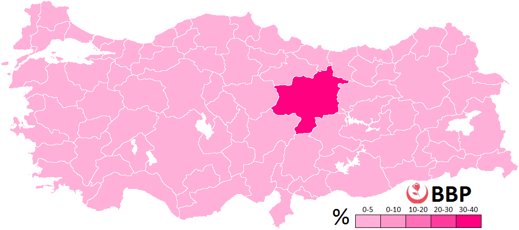 Votes gained by the BBP by province in the Turkish local elections of 2014